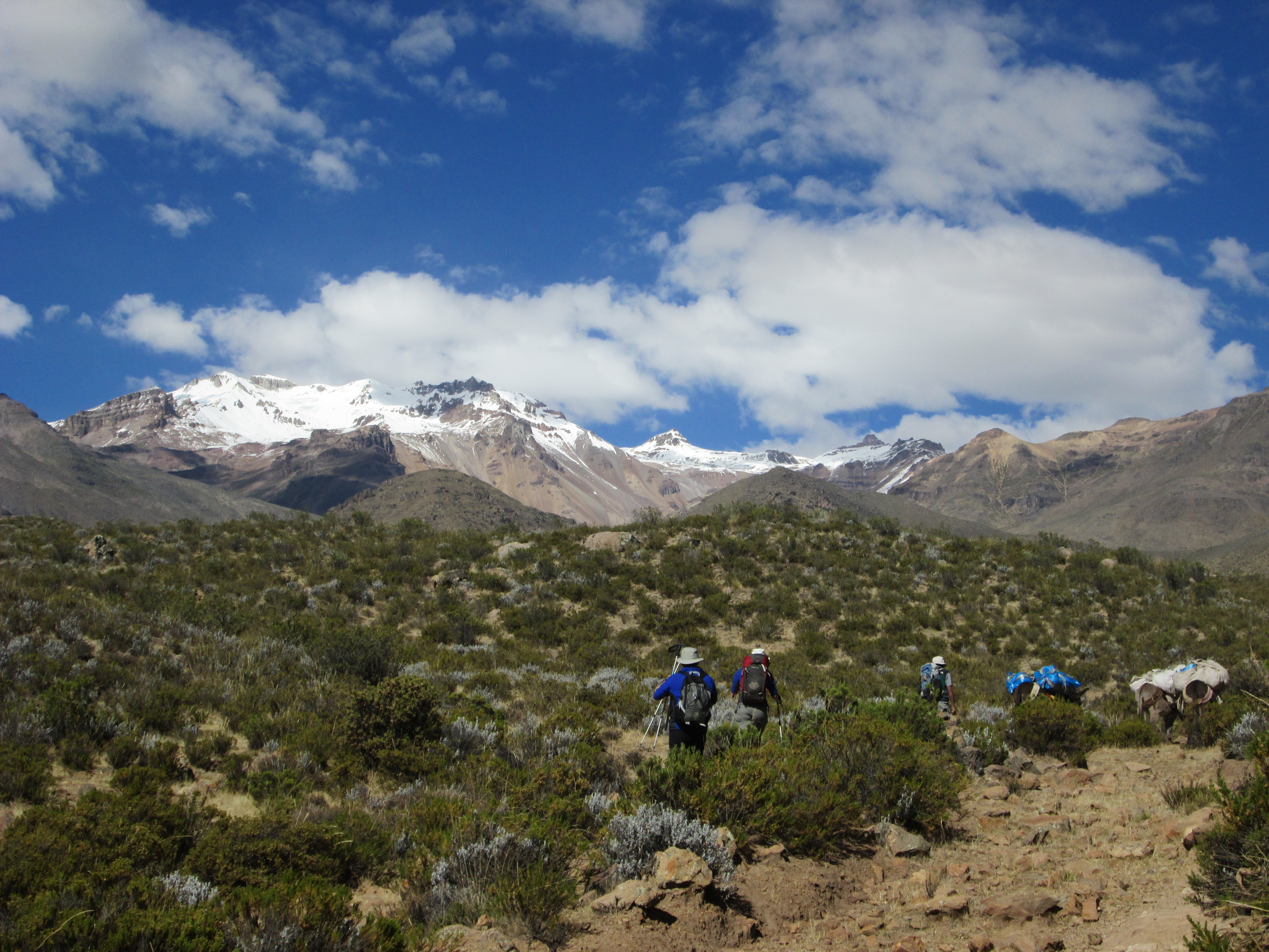 Hualca Hualca seen from the north on the approach trek